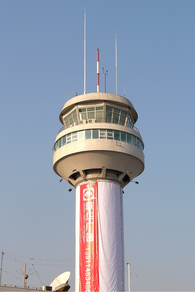 Urumqi Airport's ATC tower